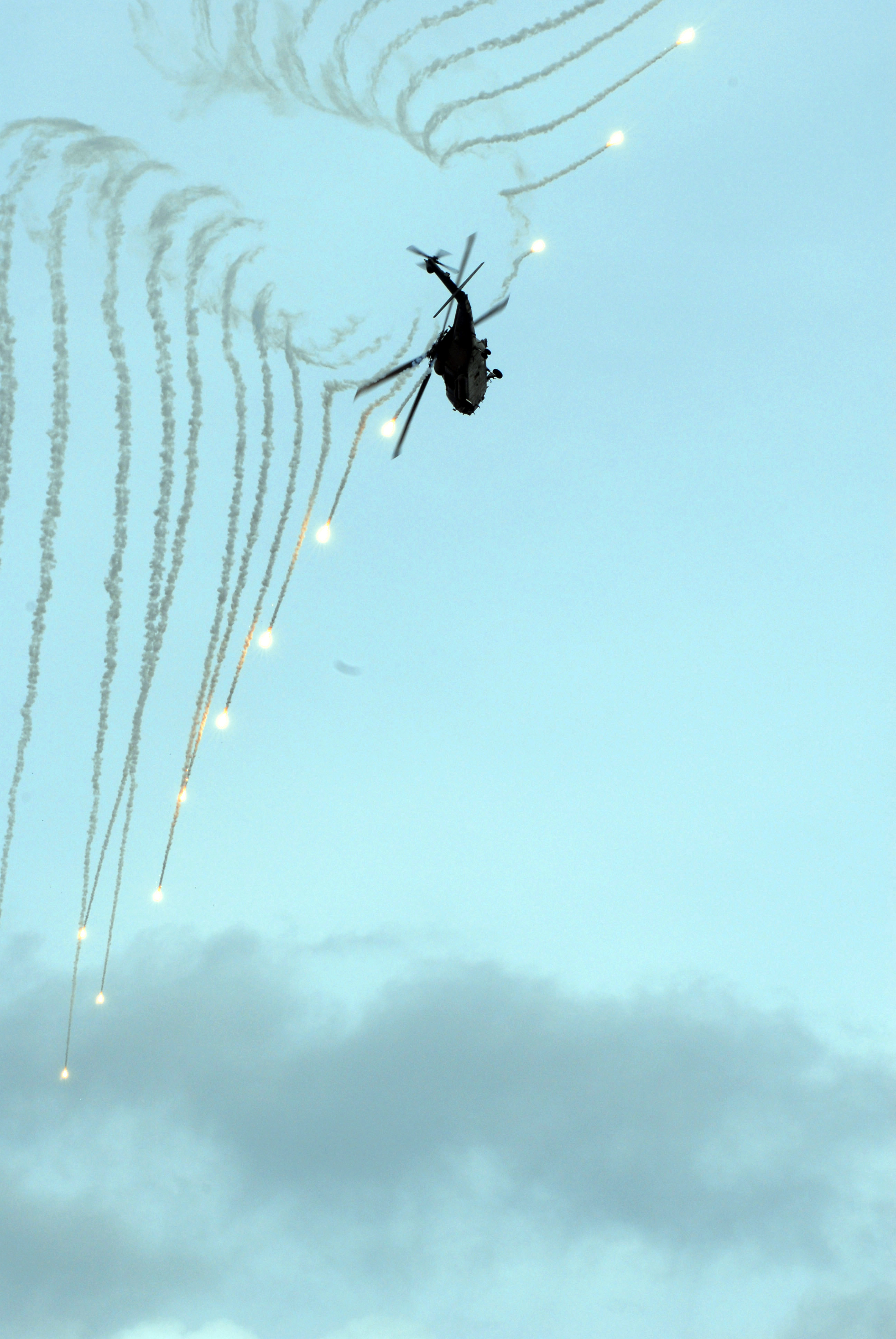 081121-N-4995K-111 PACIFIC OCEAN (Nov. 21, 2008) An HH-60H Sea Hawk assigned to the "Black Knights" of Helicopter Anti-Submarine Squadron (HS) 4 displays the ability to launch flares and quickly maneuver out of a vulnerable position during an air power demonstration alongside the Nimitz-class aircraft carrier USS Ronald Reagan (CVN 76). The Ronald Reagan is on a scheduled deployment operating in the U.S. 3rd Fleet area of operation. (U.S. Navy photo by Mass Communication Specialist 3rd Class Chelsea Kennedy/Released)